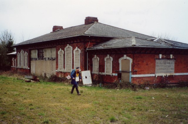 Measham station, Leicestershire. This station, on the Ashby & Nuneaton Joint Railway, lost its passenger service as early as 1931. The building is earmarked to be turned into a museum. The railway trackbed now forms part of the Ivanhoe Way, a long distance path